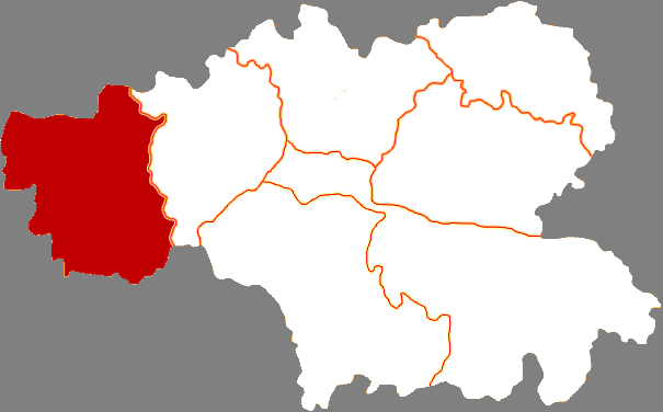 Location of Wushan county in Tianshui city, China